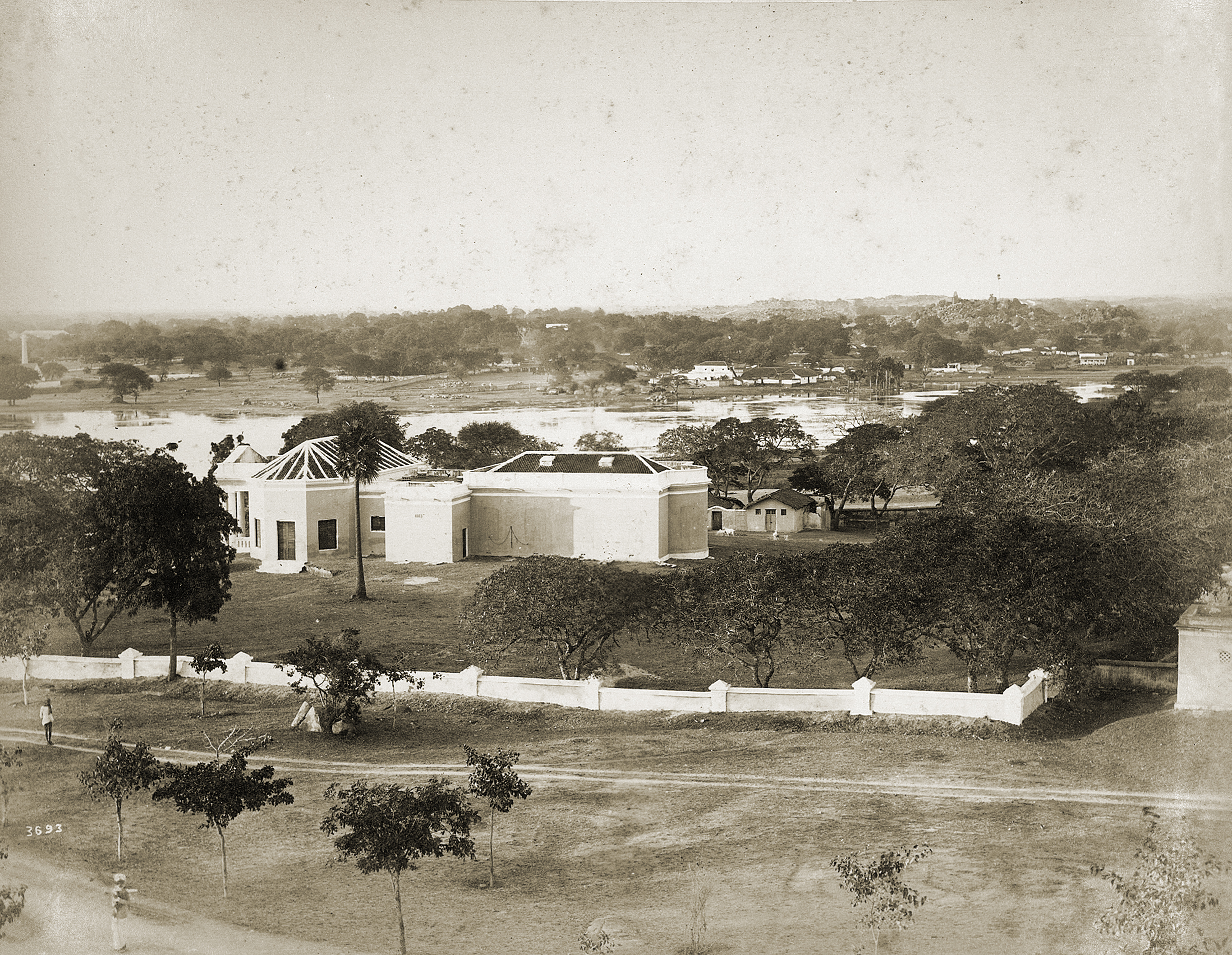 Goshamal Baradari,donated for use as a Masonic hall in 1872 by the Nizam of Hyderabad